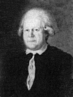 Erland Samuel Bring (August 19, 1736 – May 20, 1798)